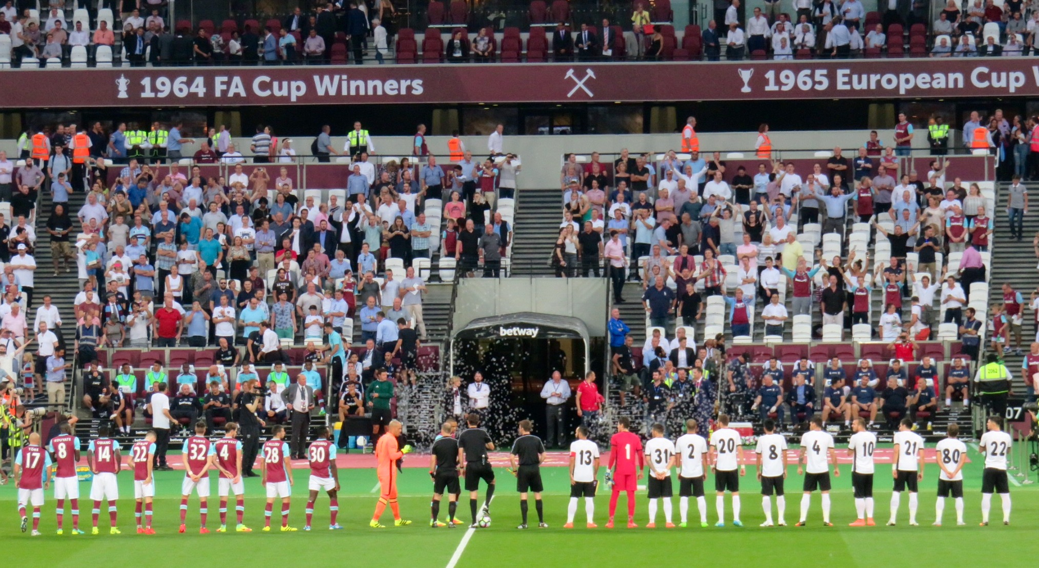 The players of West Ham United and FC Astra Giurgiu line up before their Europa League game at the London Stadium.